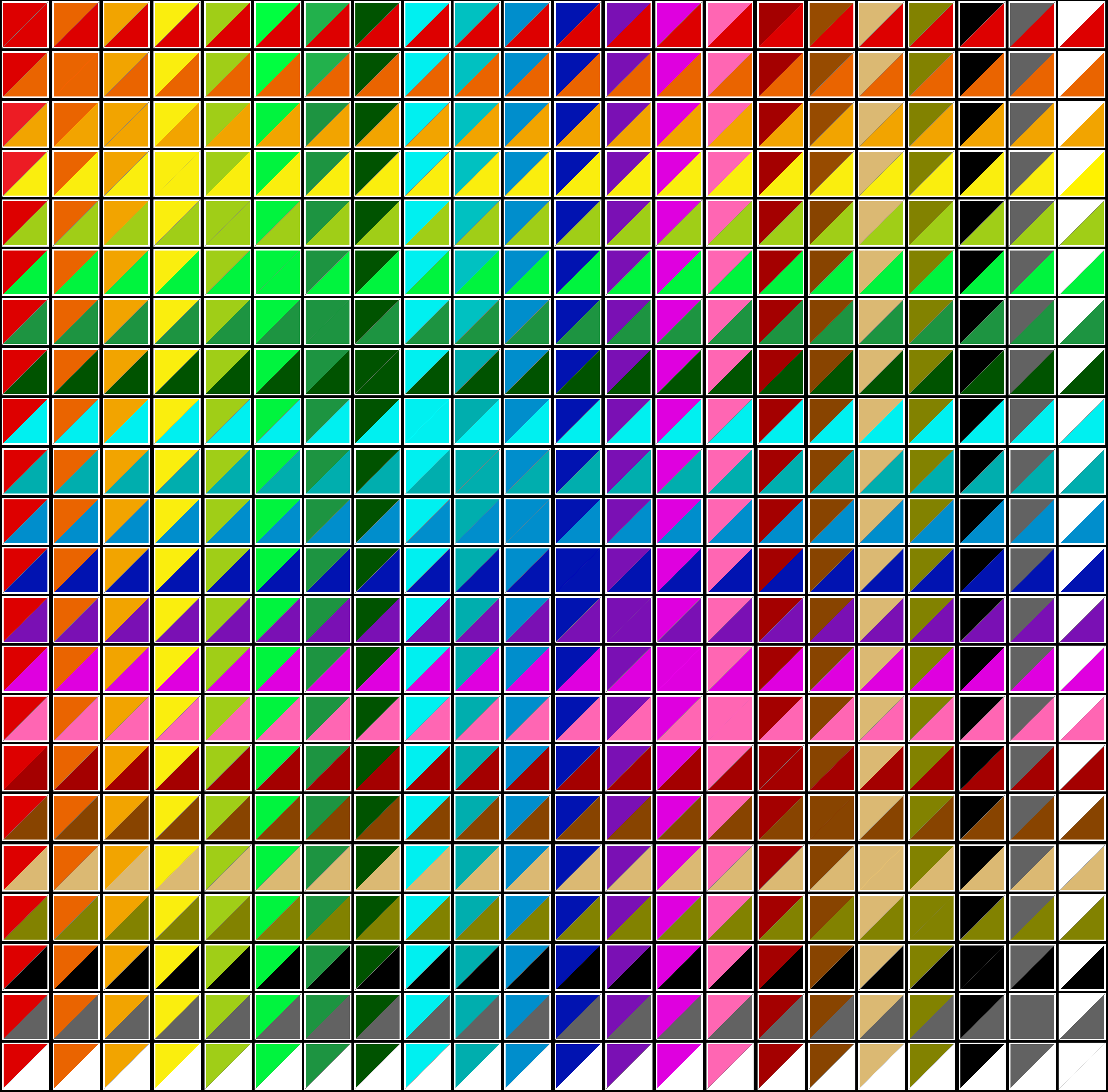 A diagram showing the contrast between each different color combination This diagram image could be re-created using vector graphics as an SVG file. This has several advantages; see Commons:Media for cleanup for more information. If an SVG form of this image is available, please upload it and afterwards replace this template with vector version available|new image name . It is recommended to name the SVG file "Colour Combinations Chart.svg" - then the template Vector version available (or Vva) does not need the new image name parameter.